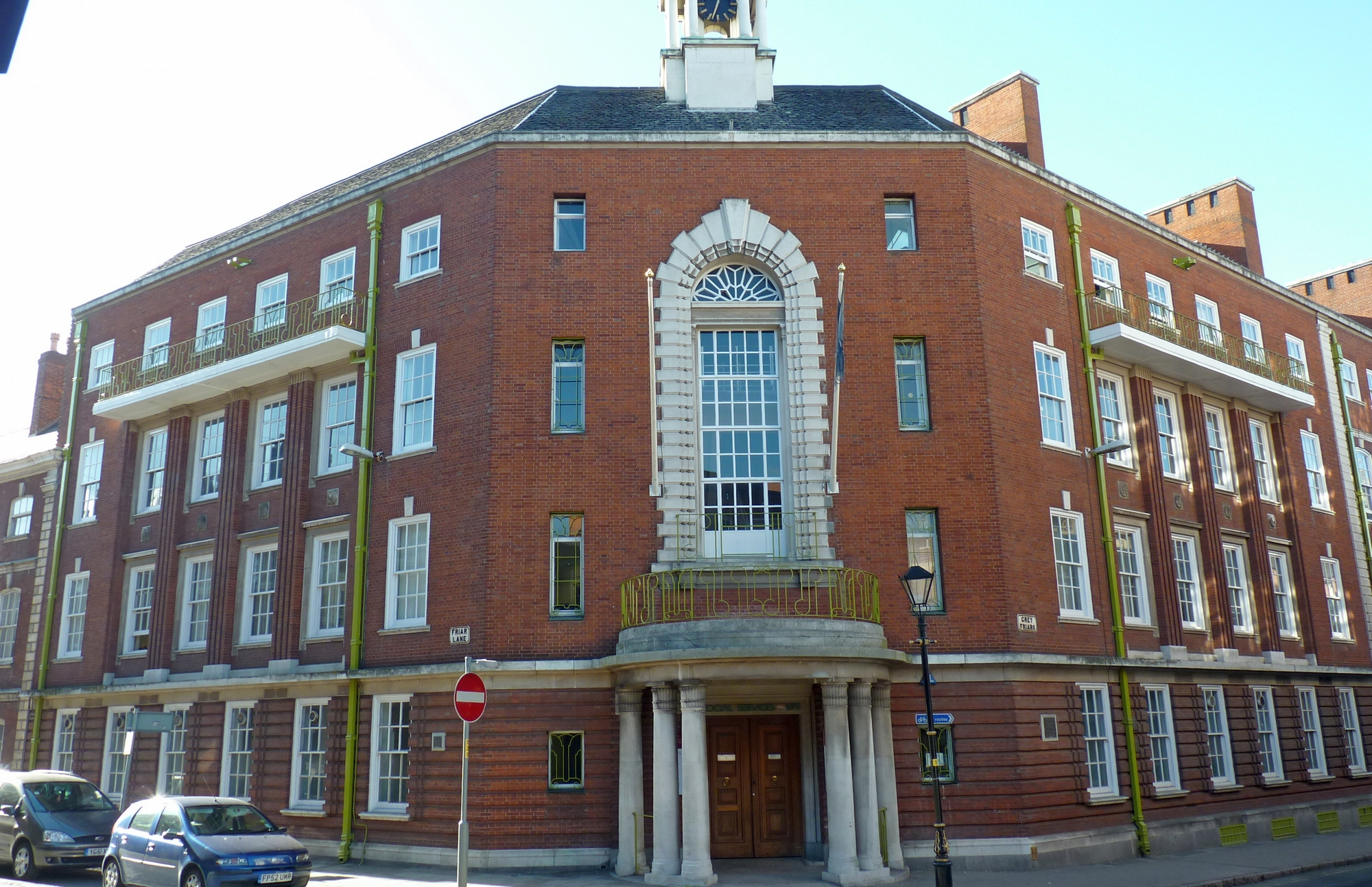 No 1, Grey Friars was built in 1936 as the County offices for Leicestershire County Council, until the completion of County Hall, Glenfield. It is on the site of mansion built by the Herrick Family following the dissolution of the Greyfriars Friary.